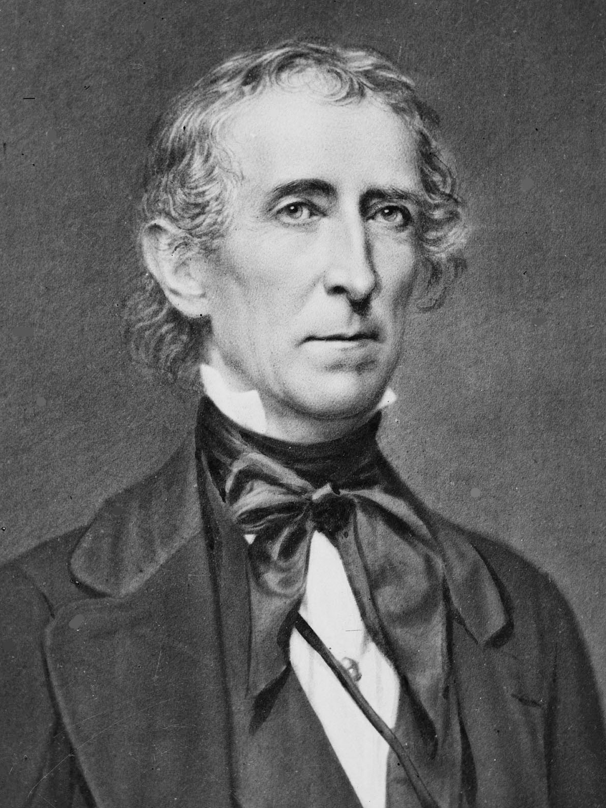 "President John Tyler, half-length portrait, facing right." Brady-Handy Collection. Reproduction of a photographic print.